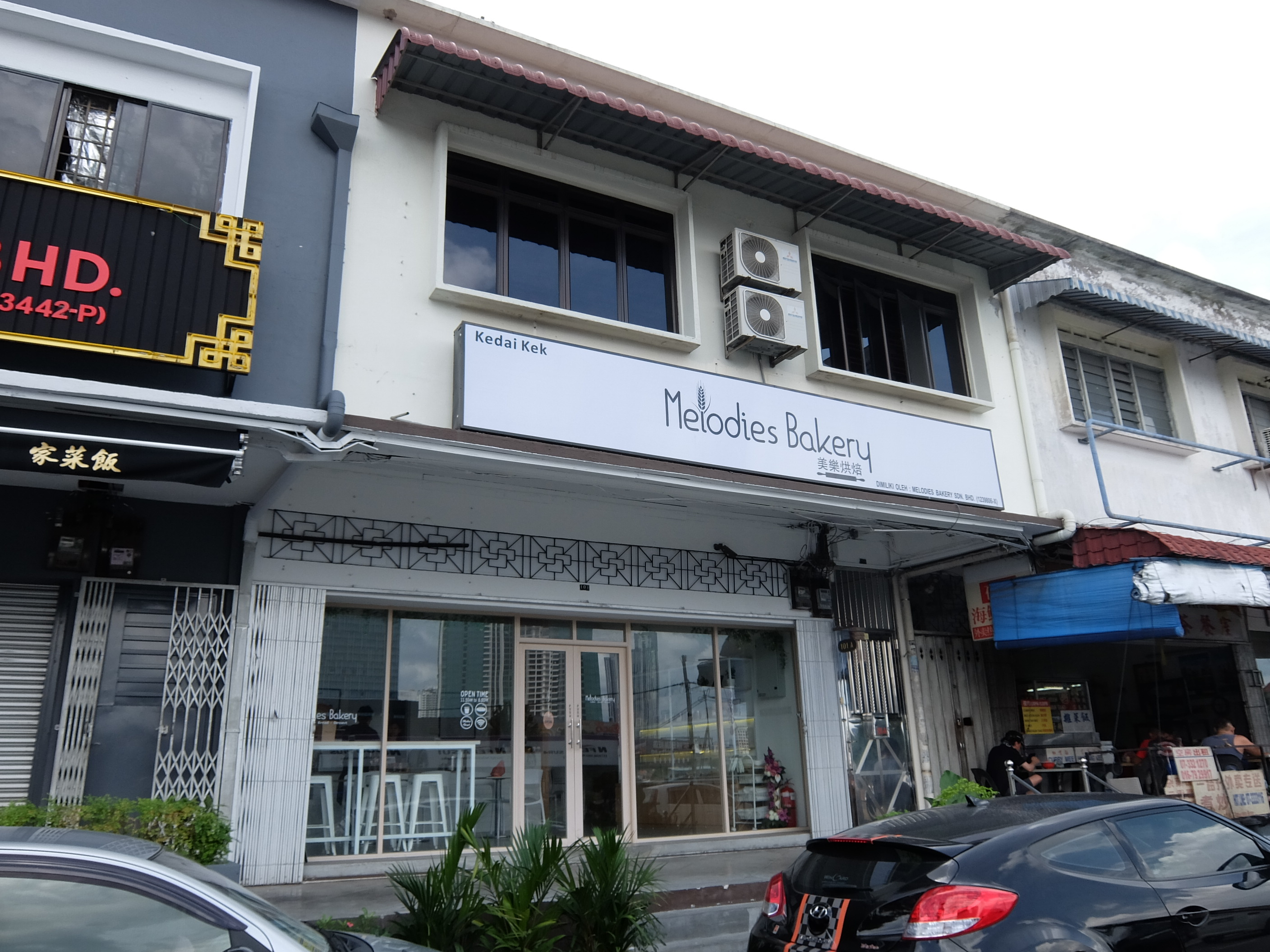 Melodies Bakery, Taman Melodies, Johor Bahru, Johor, Malaysia